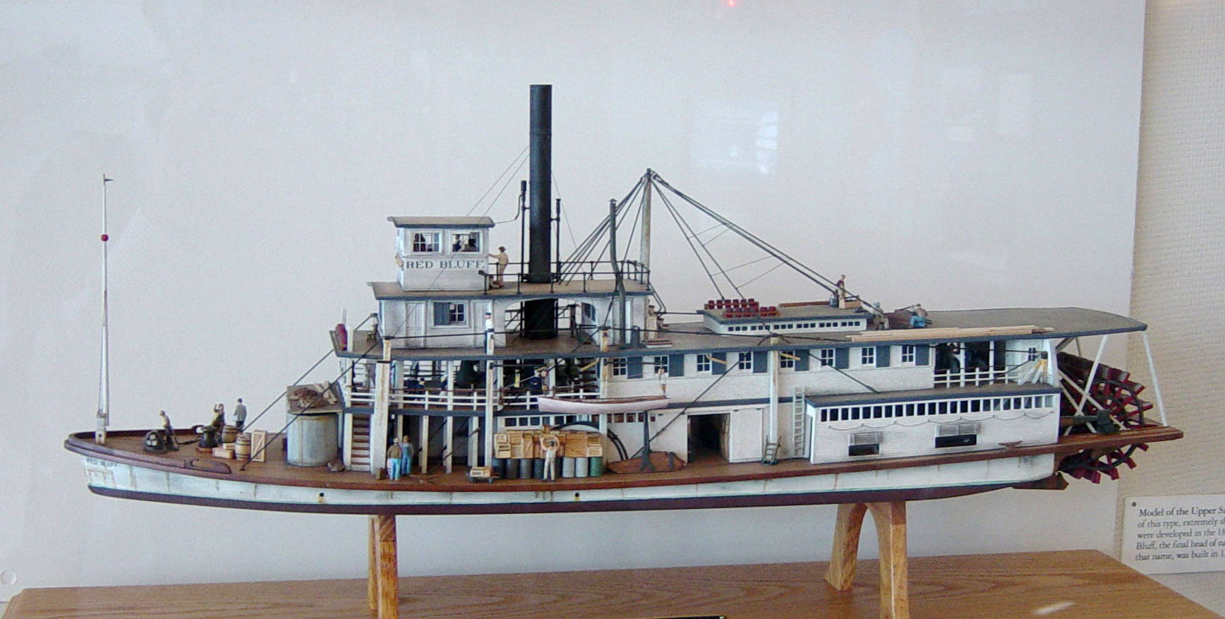 Model of a stern wheel river boat at the San Francisco Maritime Museum. Image taken and uploaded by User:Leonard G. The display card reads: Model of the Upper Sacramento River Steamer Red Bluff. Boats of this type, extremely shallow draft stern wheelers called "skimmers," were developed in the 1850s to run between Sacramento and Red Bluff, the final head of navigation. This Red Bluff, the third boat of that name, was built in 1894 and ran until the early 1930s.